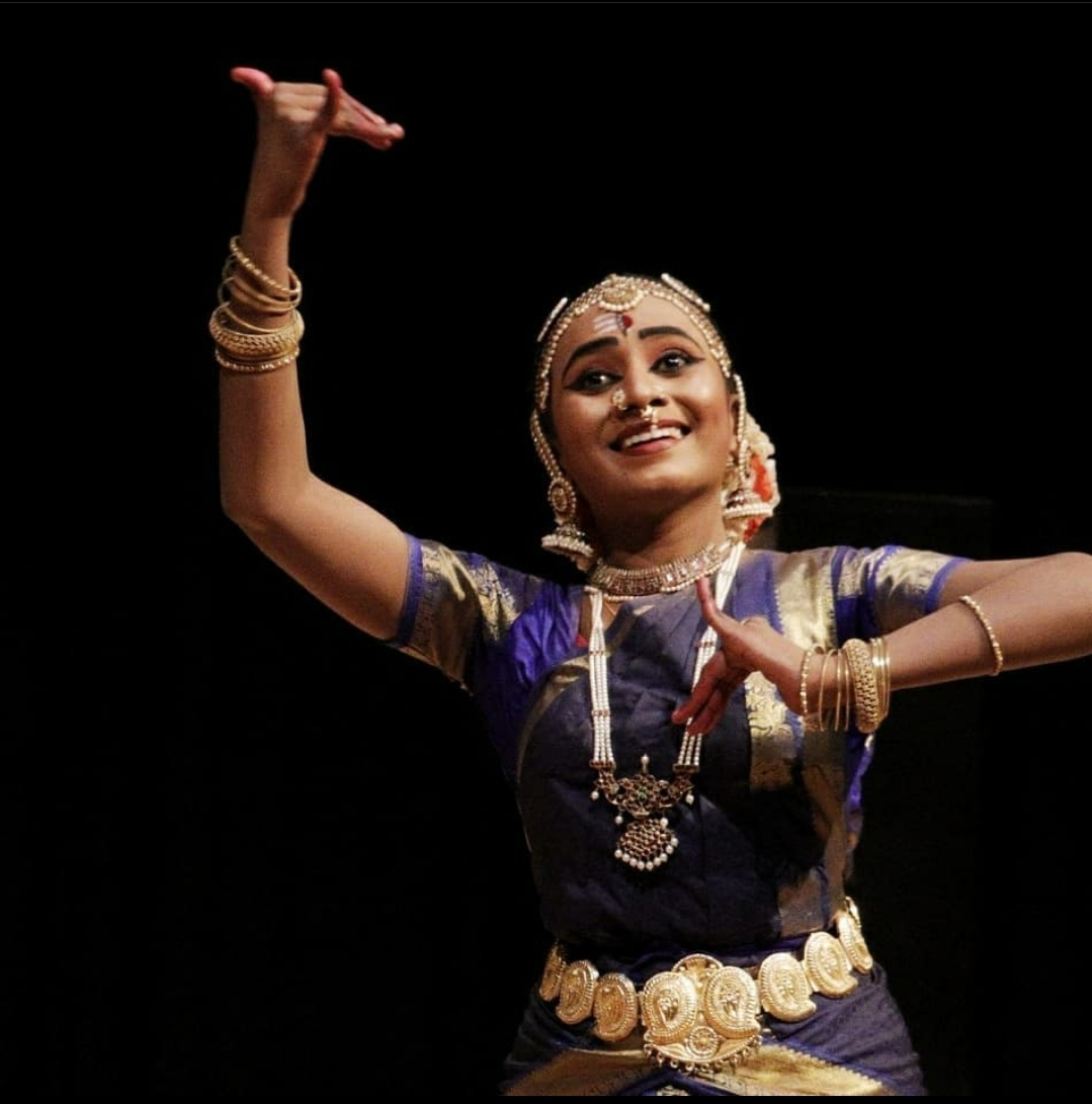 This photo has been taken in the country: India